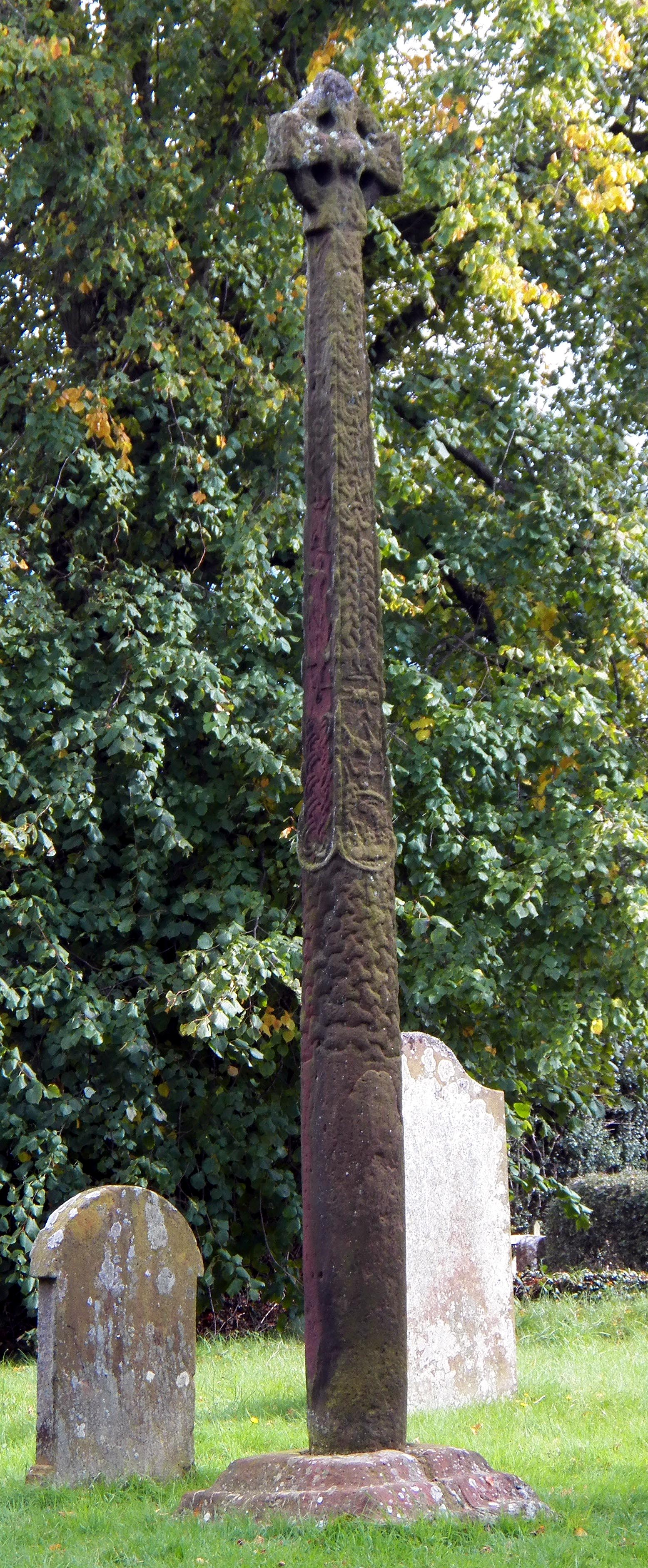 Gosforth cross; the tallest viking cross in England. In the graveyard of the parish church of Gosforth, Cumbria.